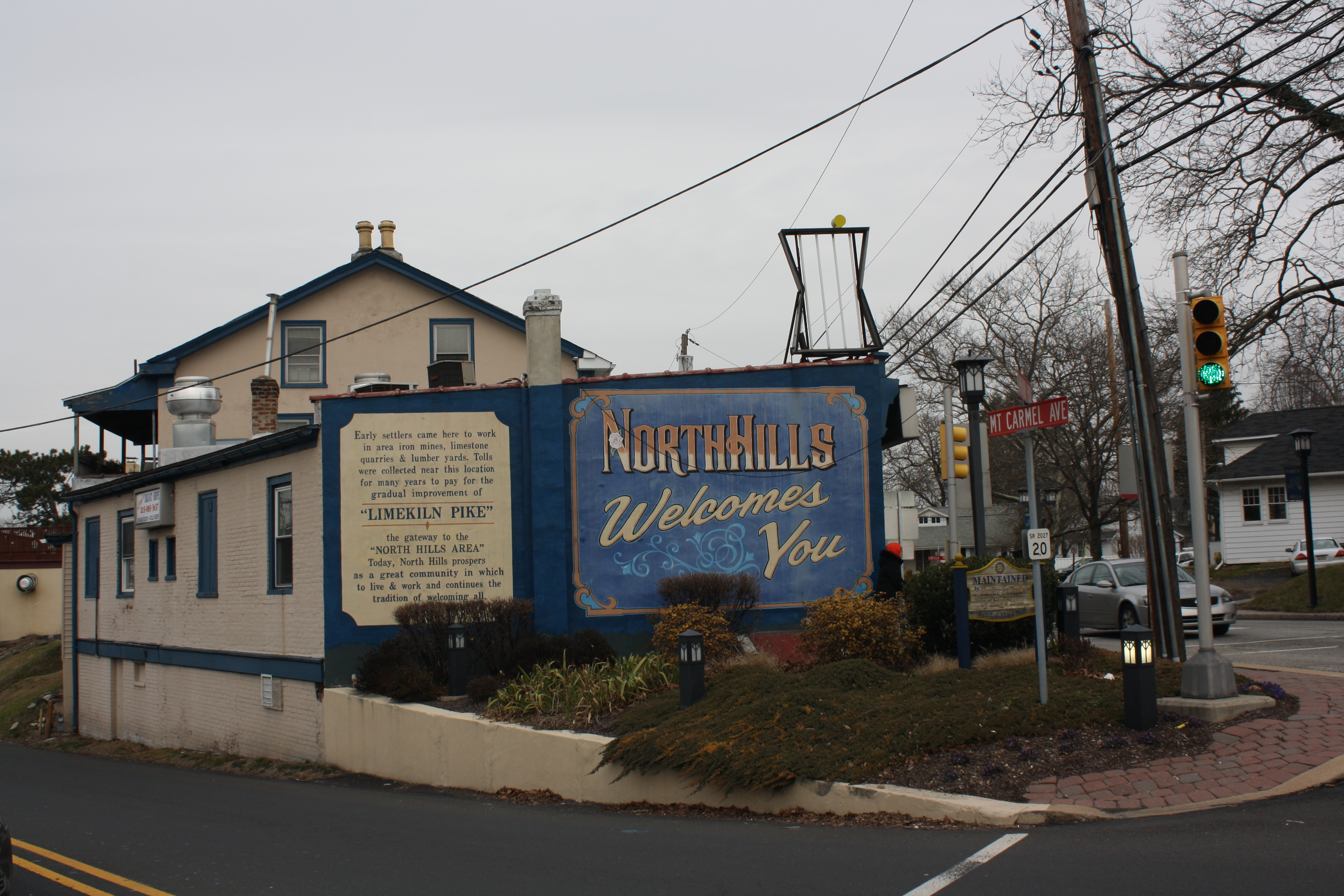 Mt Carmel Avenue, corner with Limekiln Pike, North Hills, Pennsylvania.